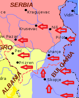 Map of the deployment of the Bulgarian troops in Yugoslavia in the autumn of 1944. Arrows indicate the directions of actions of each of the three Bulgarian armiesThe main task of the Bulgarian army is to cover up the Soviet advance north to Belgrade from the south. As a source about the location of Bulgarian troops are used the following maps: [1]; [2]; [3].